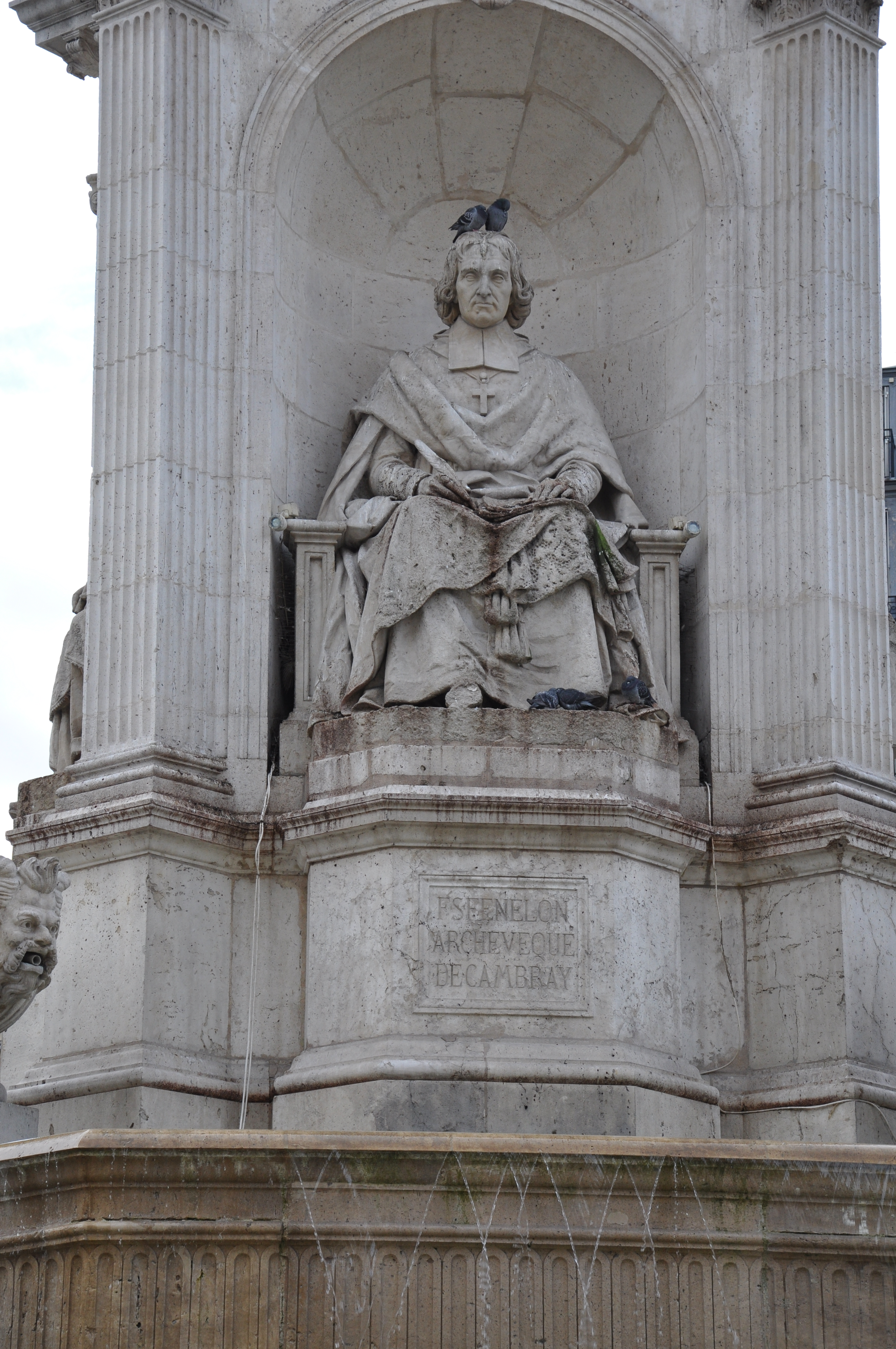 Paris (France) Statue of François Fénelon in Place Saint-Sulpice.